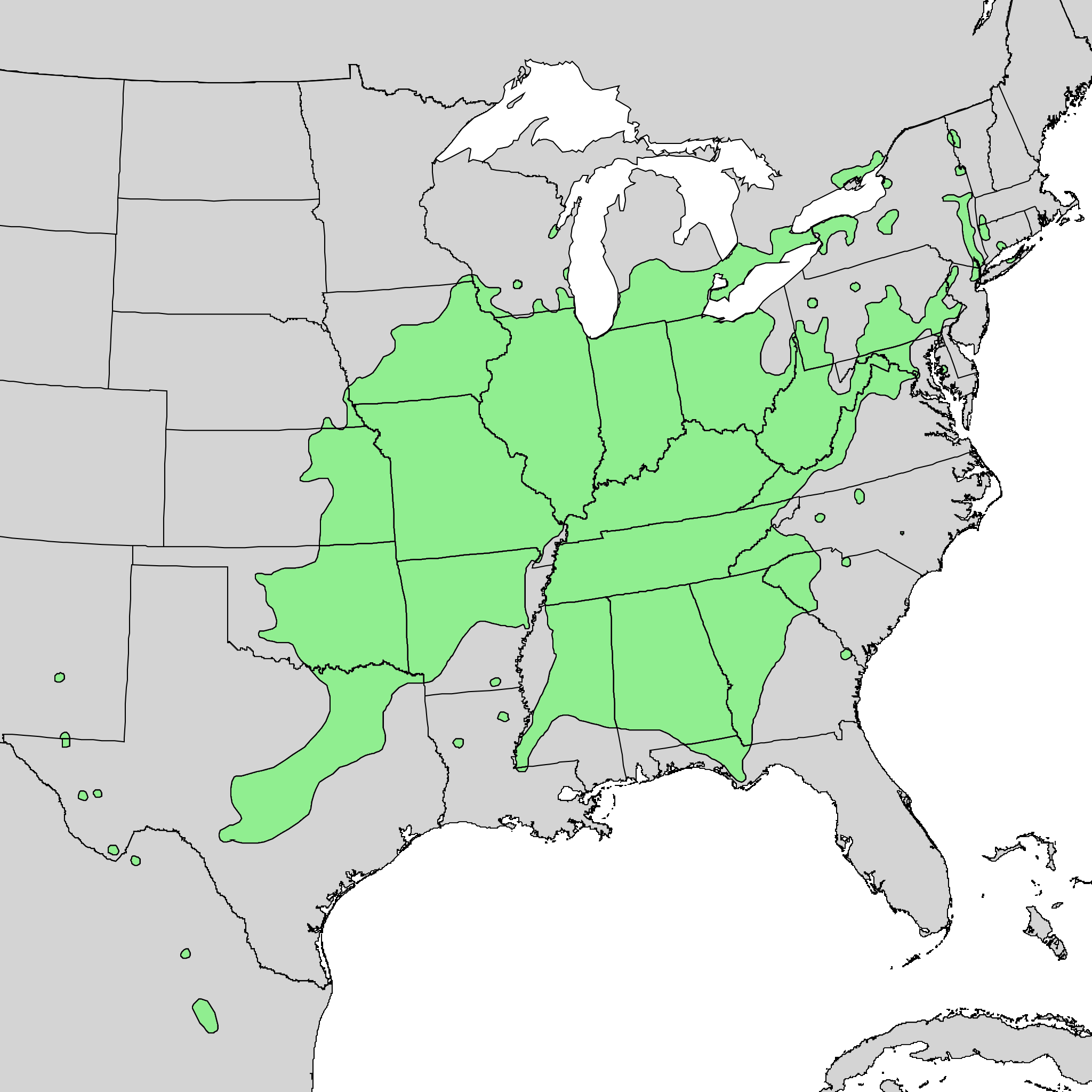 Range map of Quercus meuhlenbergii